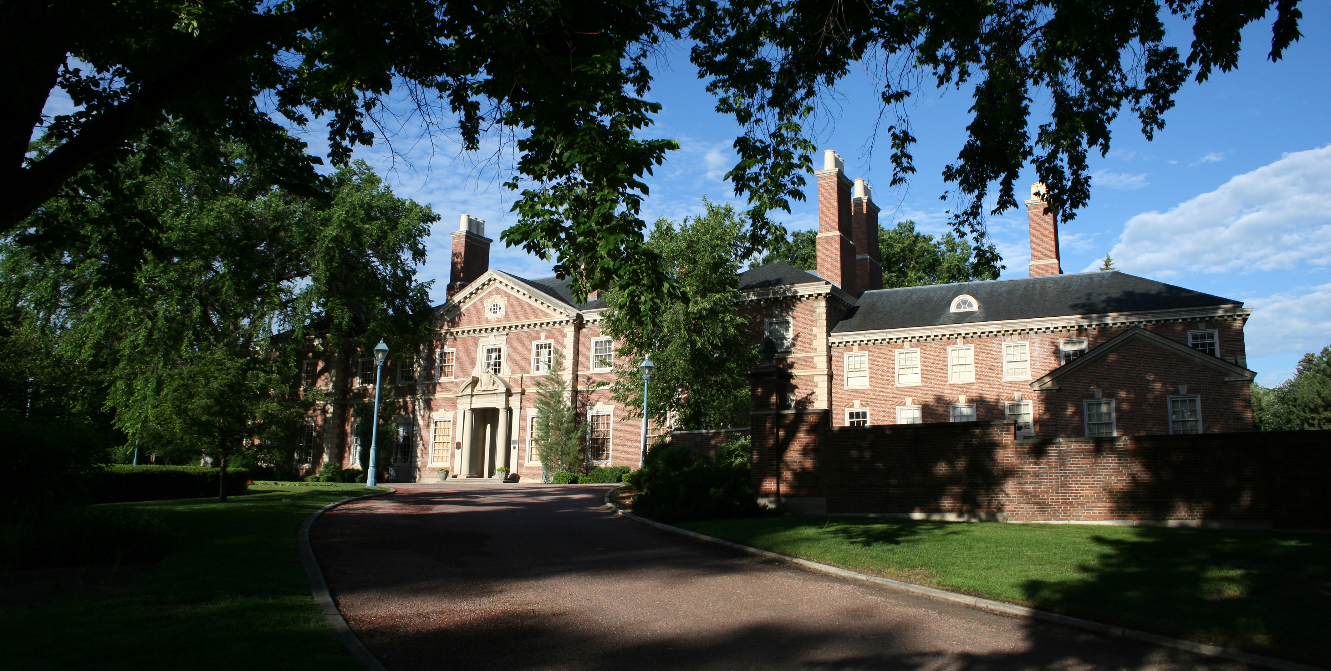 The Phipps Mansion, nicknamed Belcaro, in Denver, Colorado